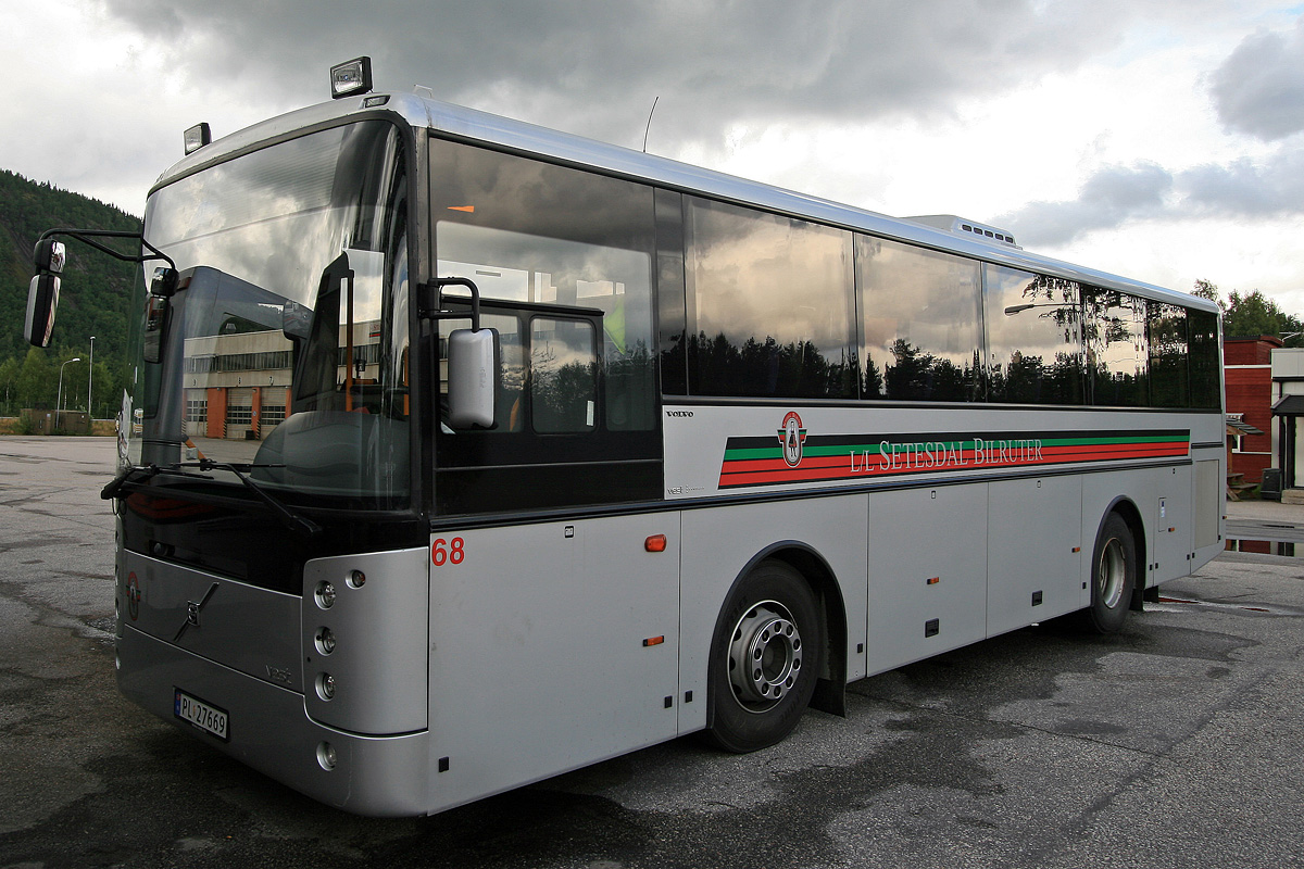 Vest Contrast bodied Volvo B7R at Setesdal Bilruter's garage on Evjemoen.